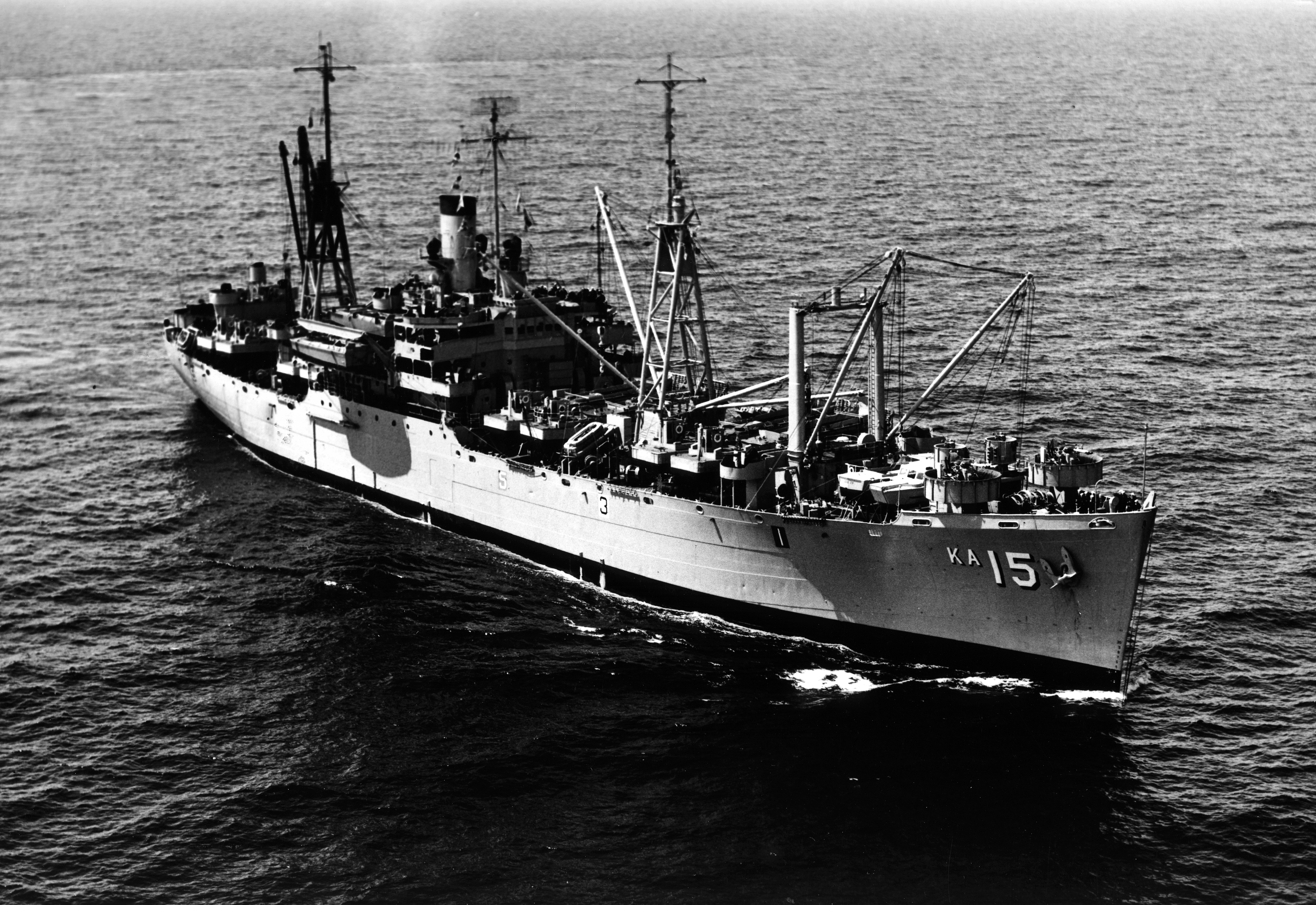 Official U.S. Navy Photo